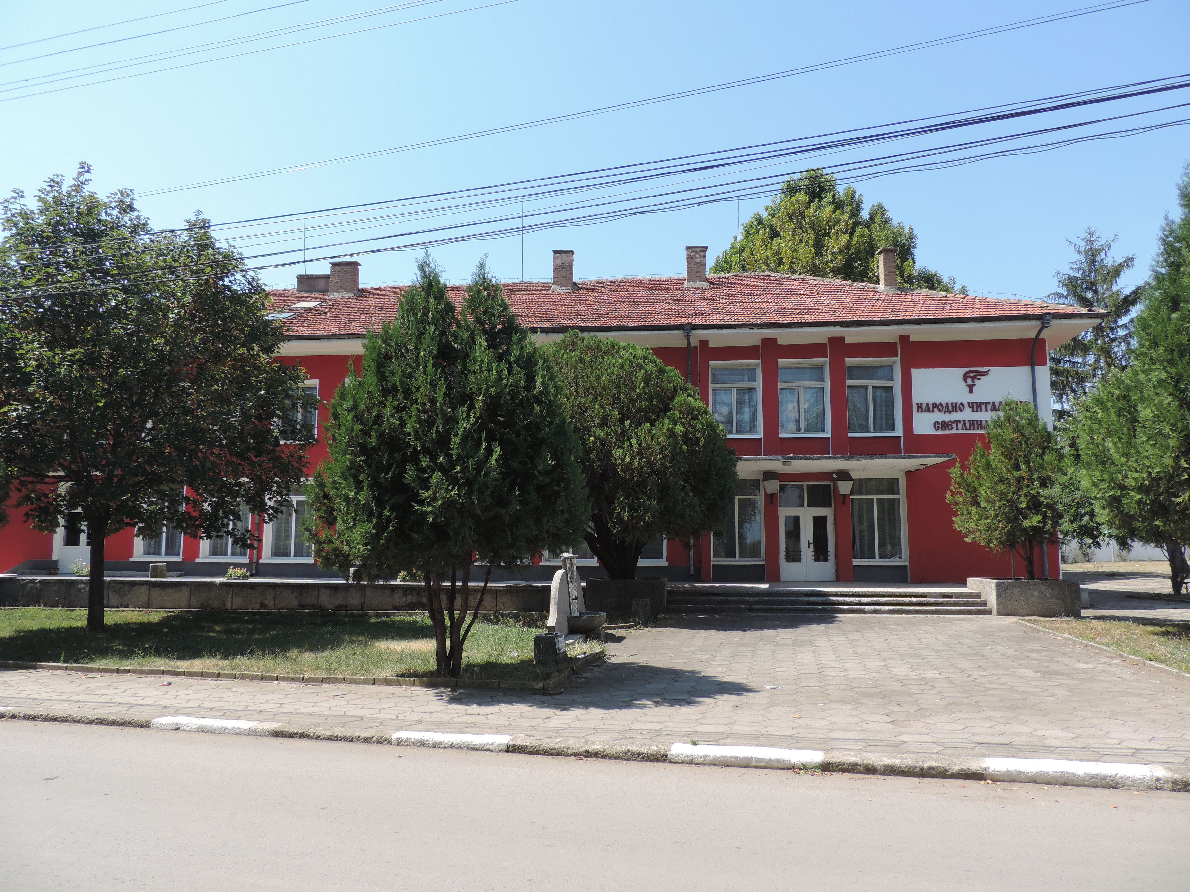 Community centre "Svetlina 1905" - village Gorno Sahrane, Pavel Banya Municipality, Stara Zagora Province, Bulgaria.